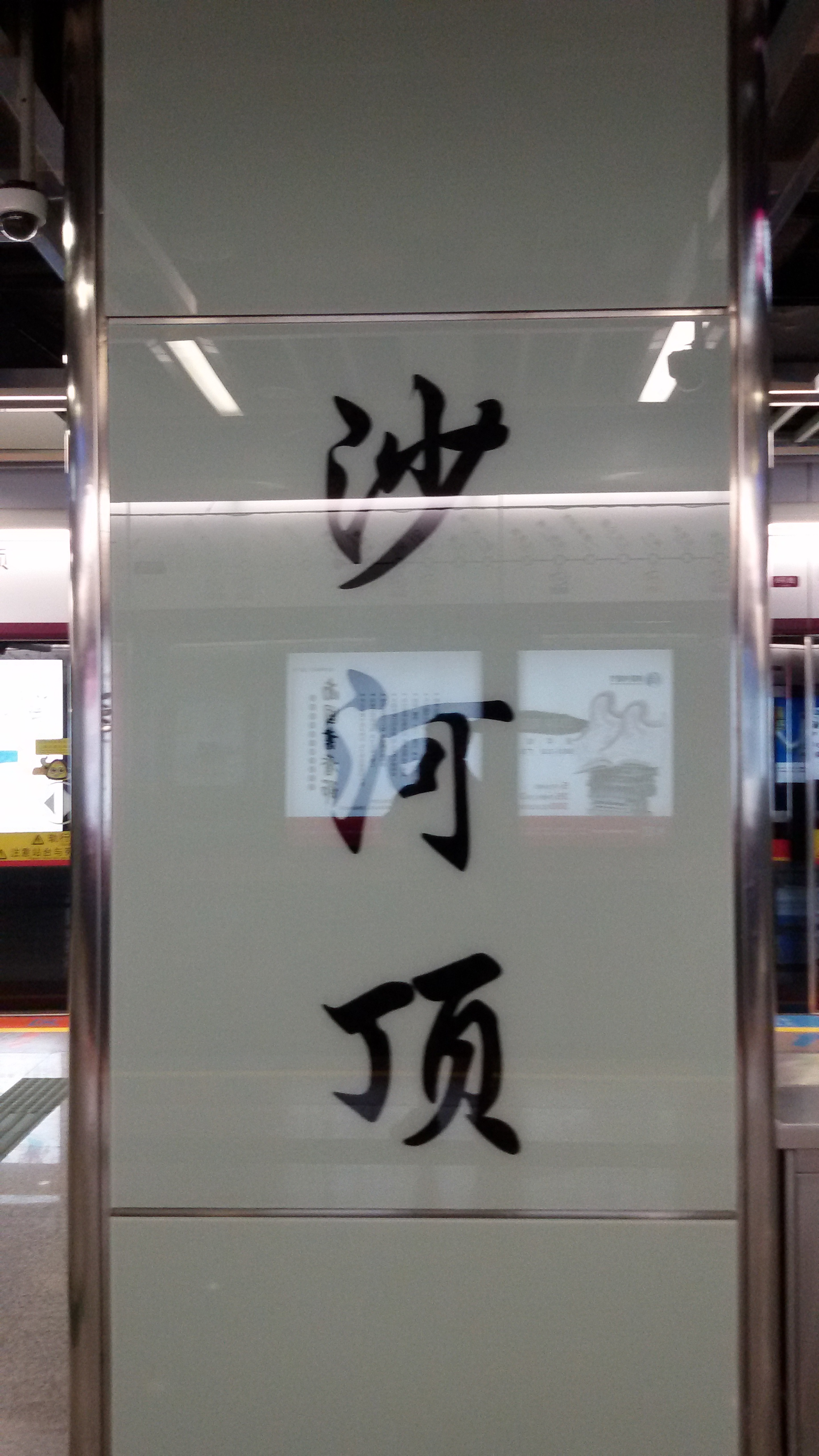 BIG WORD on pillar for Shaheding Station, Guangzhou Metro. 粵語: 廣州地鐵，沙河頂站嘅柱上面啲字。